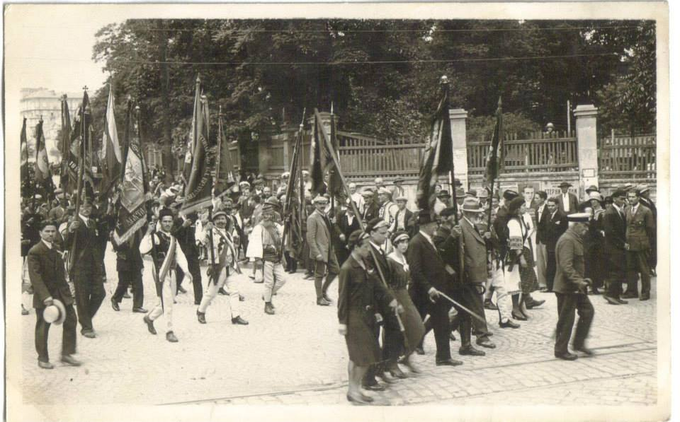 Macedonian demonstration Bulgaria